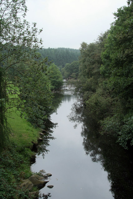 River Derwent The River Derwent at the head of Derwent Reservoir. The river is the boundary between County Durham (left) and Northumberland (right).